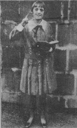 Uldine Utley, from Ilustrirani Slovenec magazine.